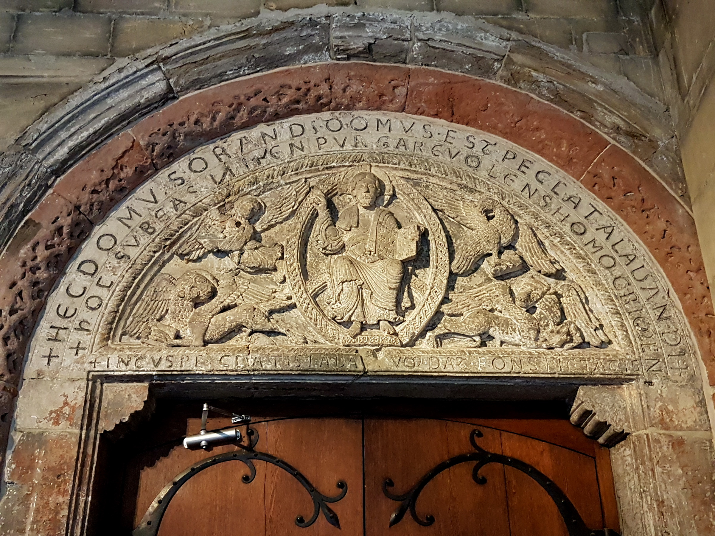 Detail of the north transept portal from the east corridor of the cloisters of the Basilica of Saint Servatius in Maastricht, the Netherlands. The 12th-century portal was probably moved here in the 15th century from the Vrijthof entrance. The heavily worn archivolt of red sandstone has floral decorations. The tympanum shows a mandorla with Christ in Majesty, surrounded by the symbols of the four evangelists. The text around the tympanum reads: + HEC DOMUS ORANDI DOMUS EST PECCATA LAVANDI + + HOC SUBEAS LIMEN PURGARE VOLENS HOMO CRIMEN (This house of prayer is a house of purification of sins. Step over the threshold, o man, if you wish to purify yourself of sins), and on the lintel: + INTUS PECCATIS LAVACRUM DAT FONS PIETATIS (Inside, the source of grace will provide forgiveness of your sins).